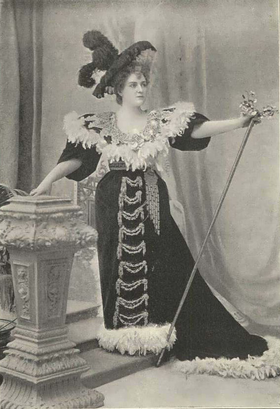 Photograph of Lillian Russell in The Queen of Brilliants